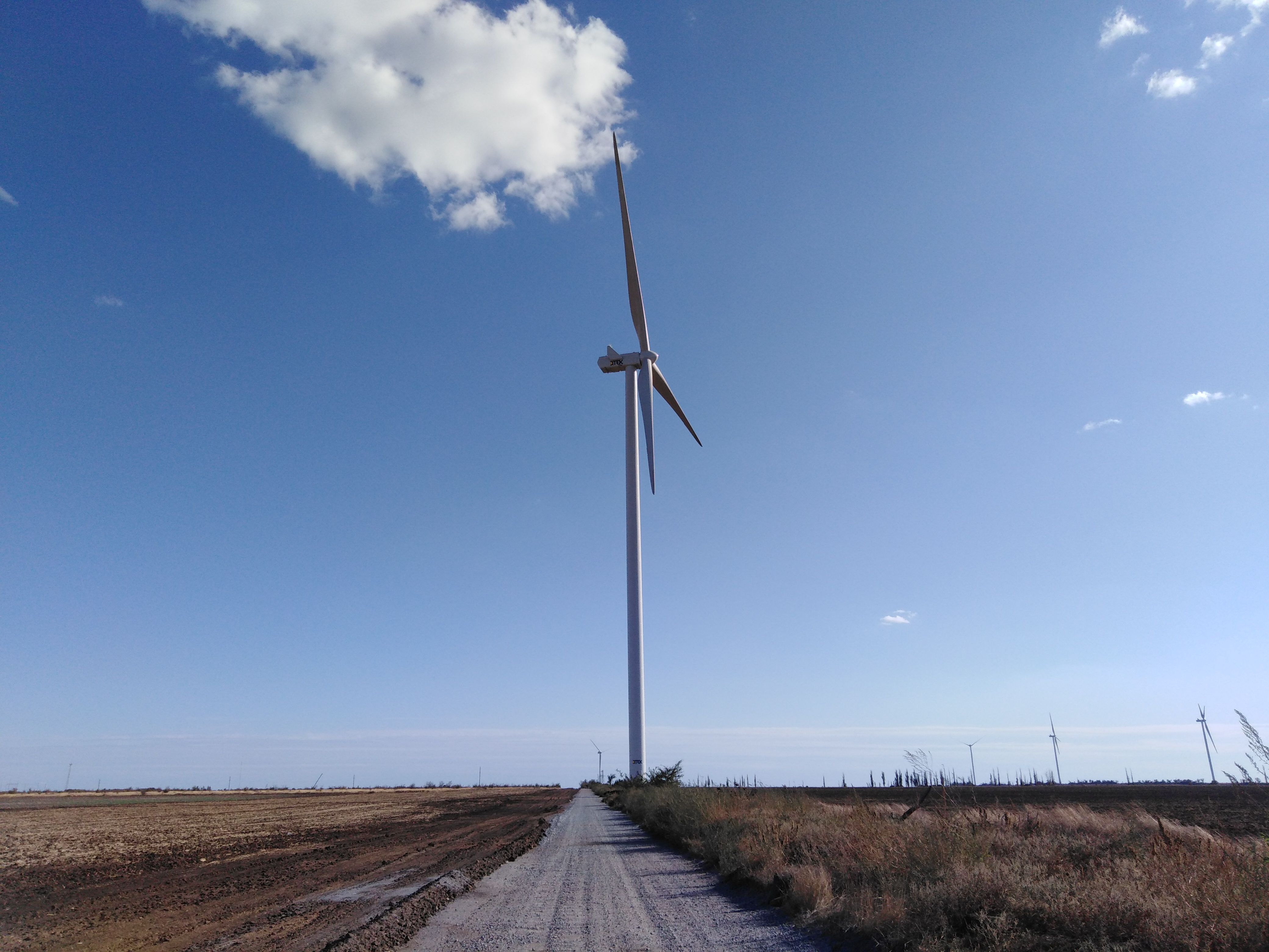 Ukraine. Zaporozhye region, Prymorsk Raion. Orlivska Wind Power Plant.